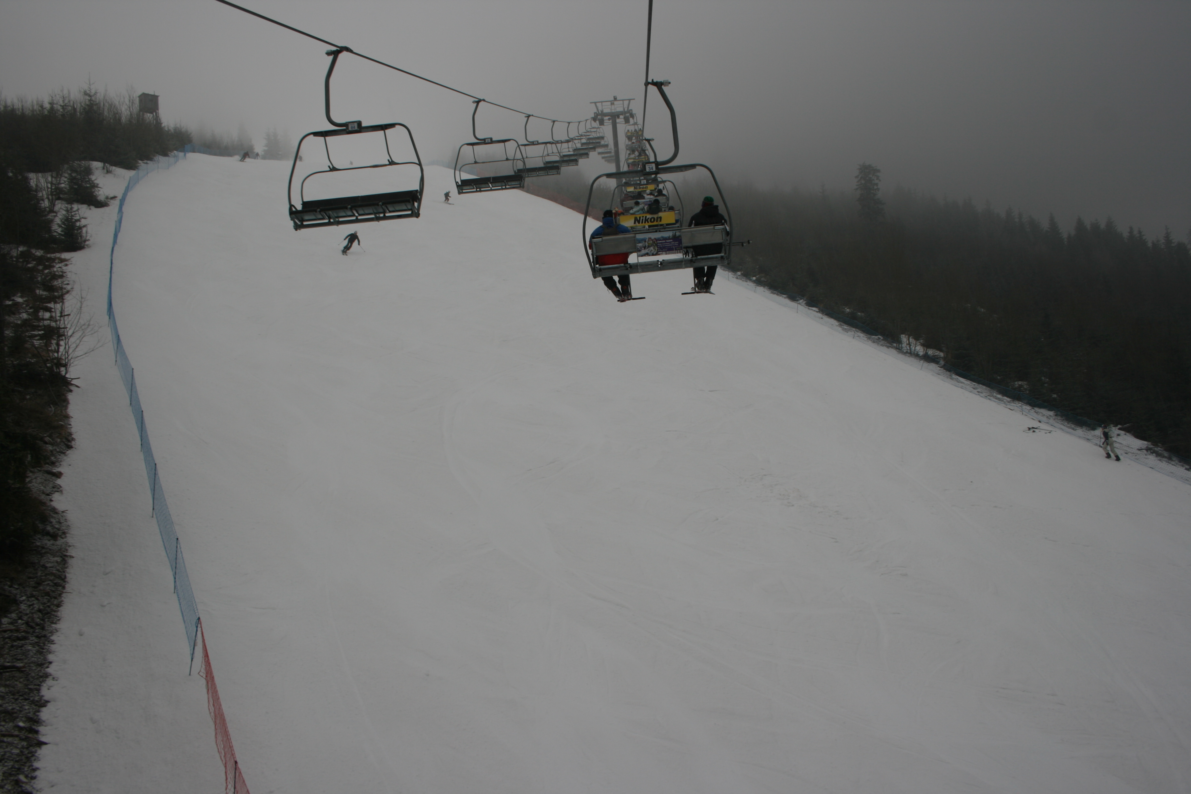 Black trail in Jurgów ski area